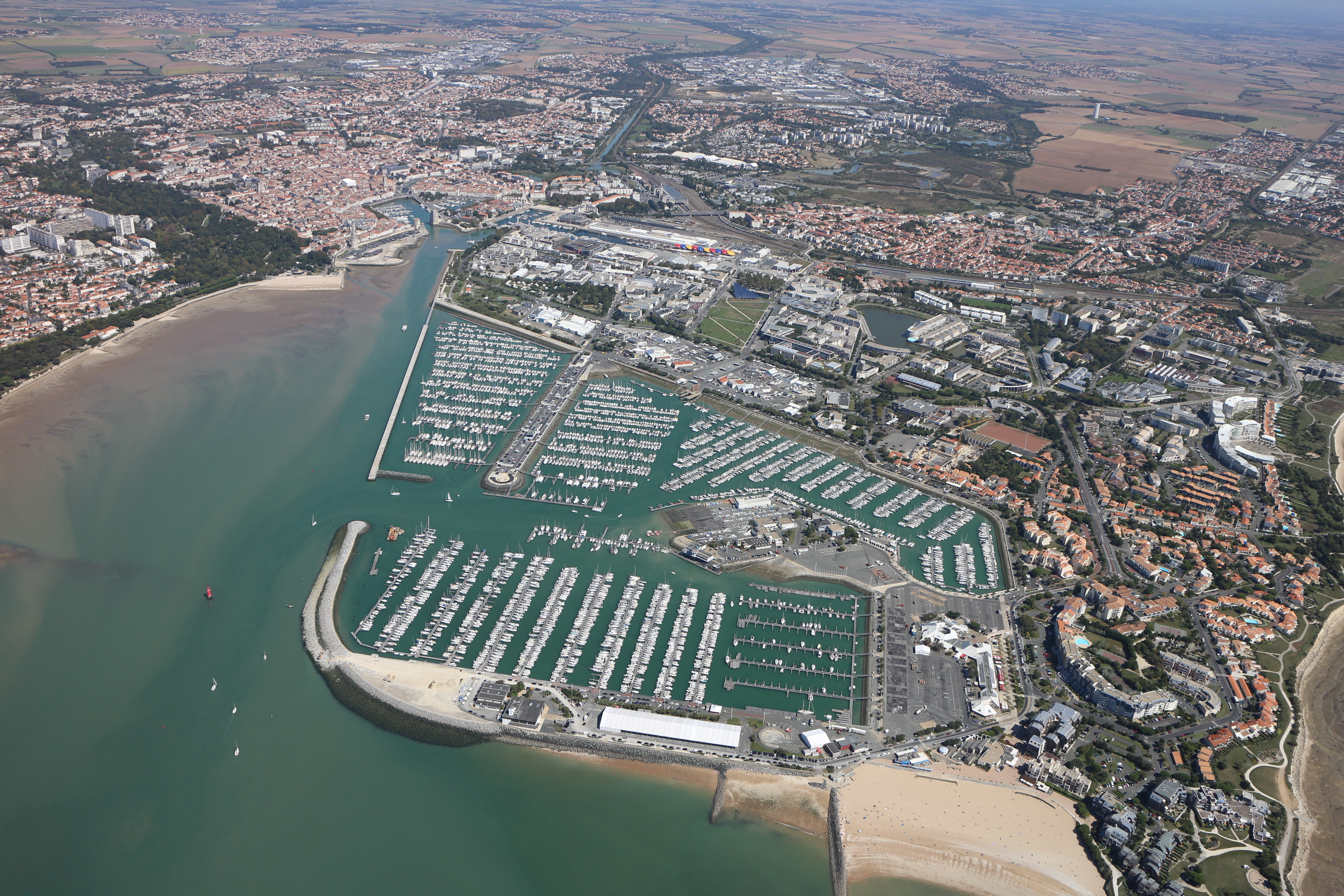 Marina La Rochelle - France- on Atlantic coast - 2014